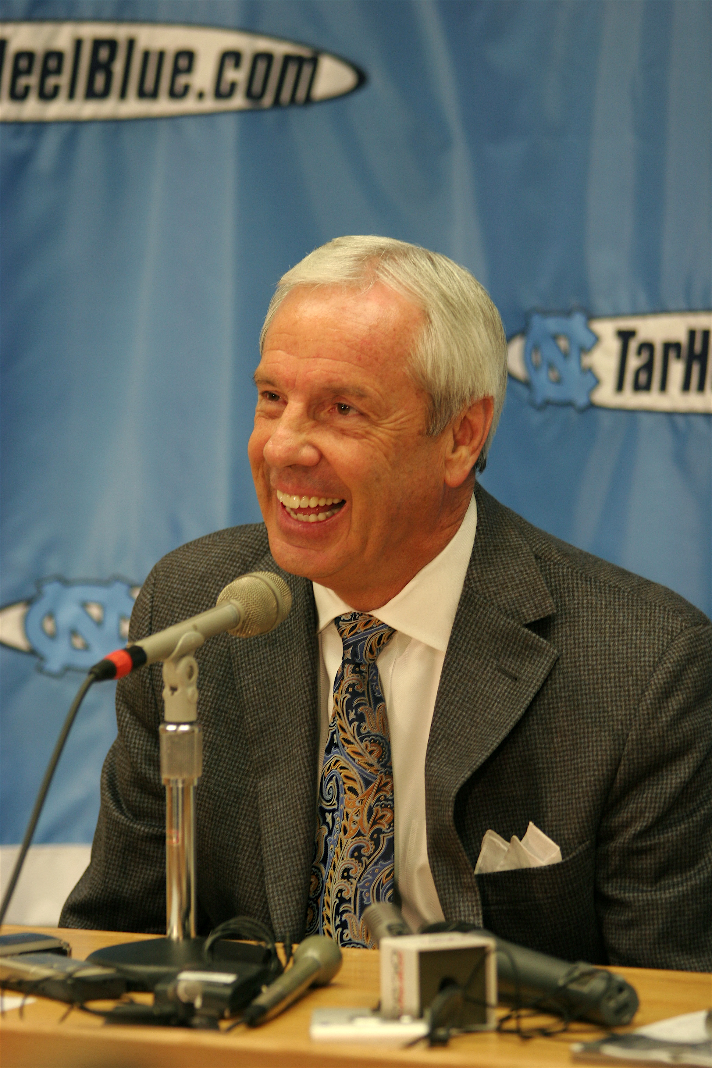 Roy Williams at a Press Conference for the University of North Carolina Tarheels